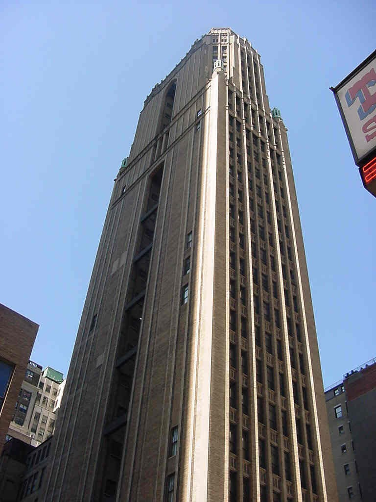 Bush Tower 42nd St NYC. Viewed from base.